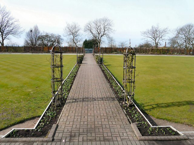 Copster Park The path between the bowling greens at Copster Park.